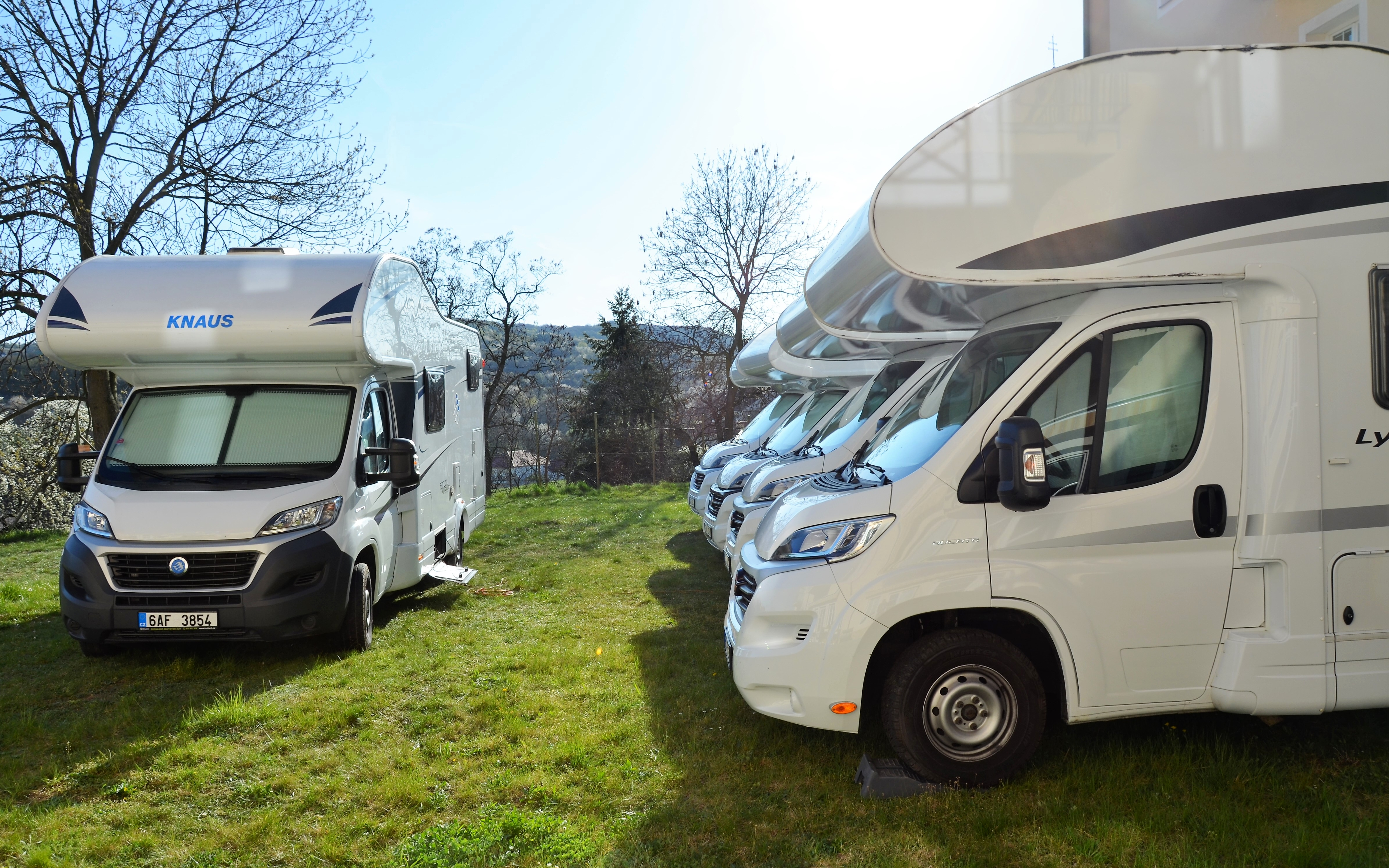 Caravans in Retirement house Kadaň areal during COVID-19 pandemic